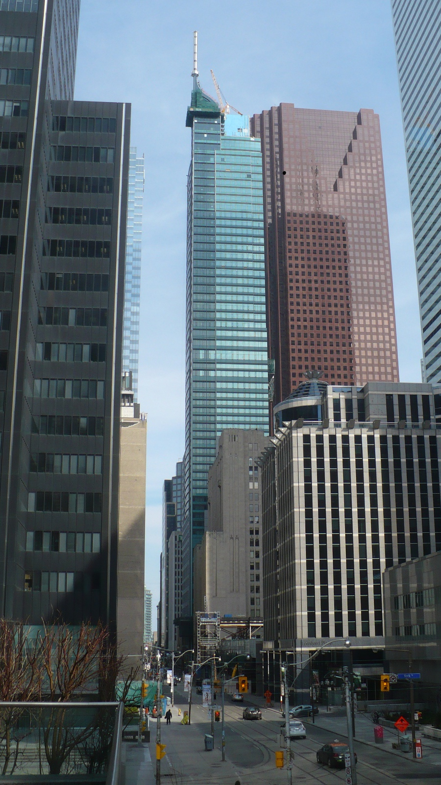 Looking east along Adelaide Street at the Trump Tower in Toronto - almost done.